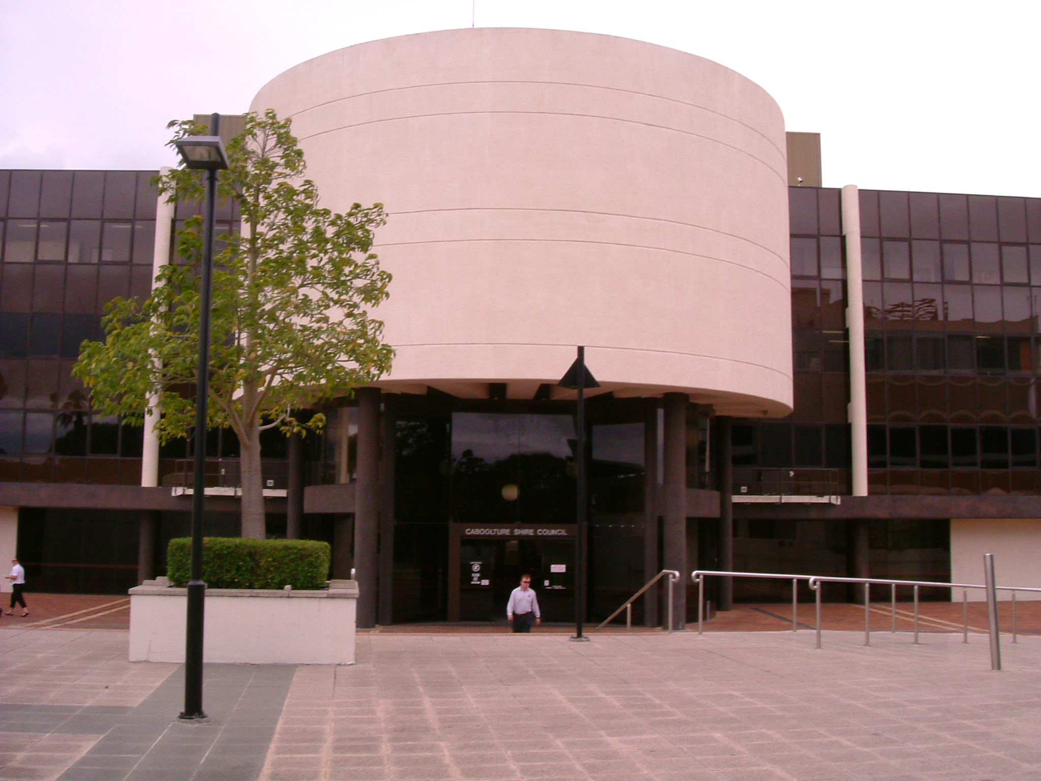 Caboolture Shire Council building, by Arnzy 06:15, 8 December 2006 (UTC)